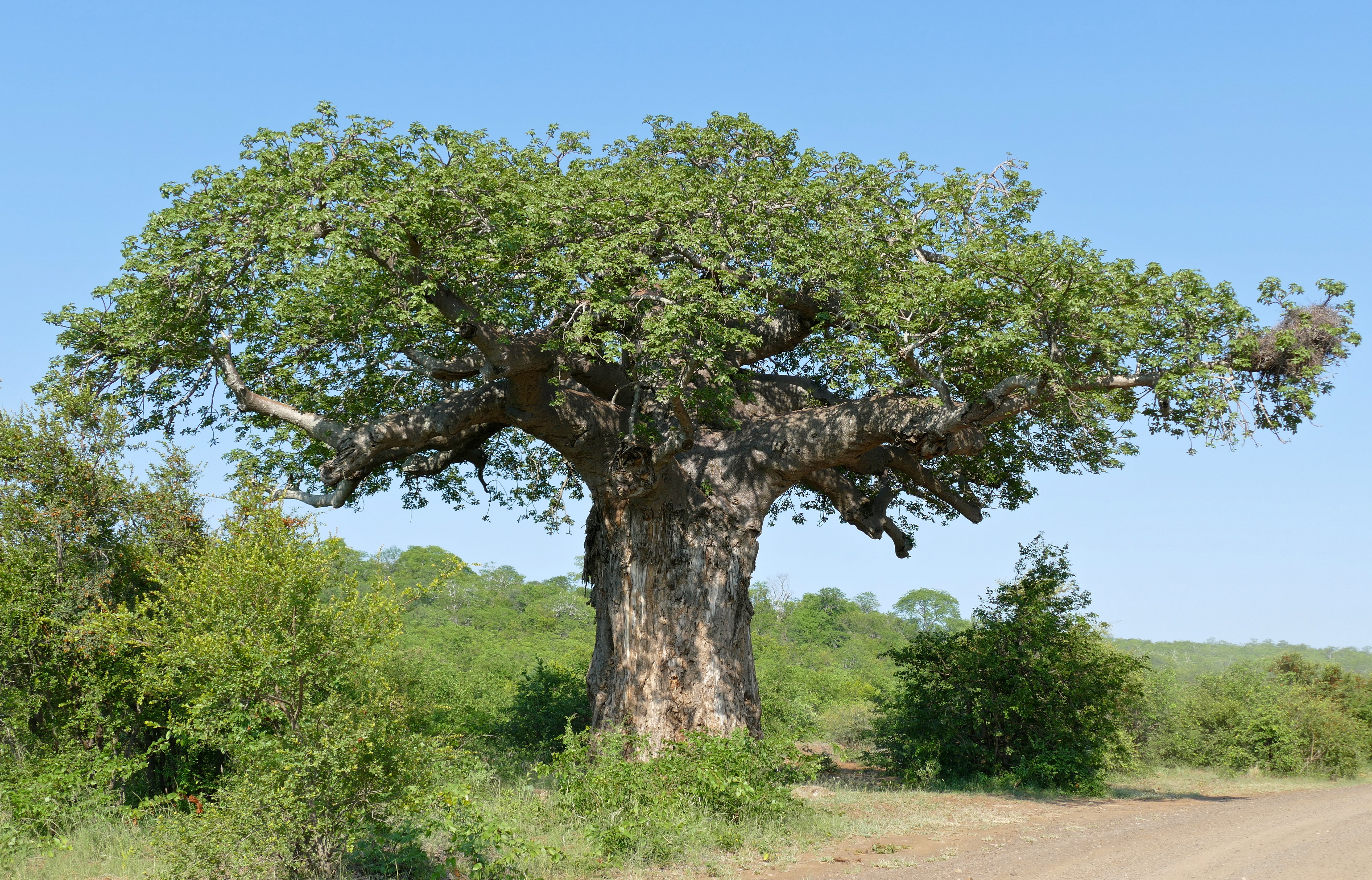 S93 Road North of Olifants, Kruger NP, SOUTH AFRICA